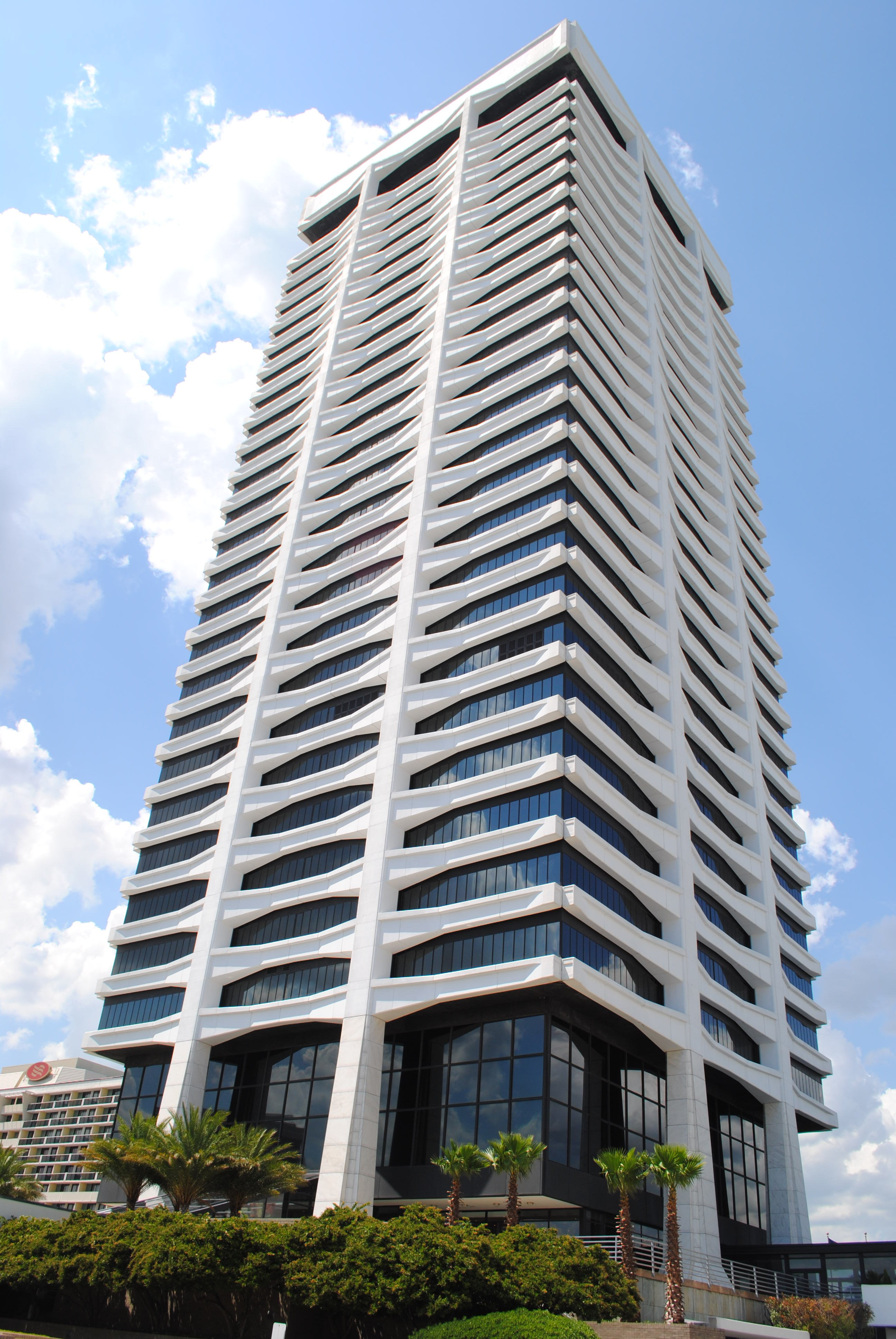 Photo of the Riverplace Tower in Jacksonville, Florida.